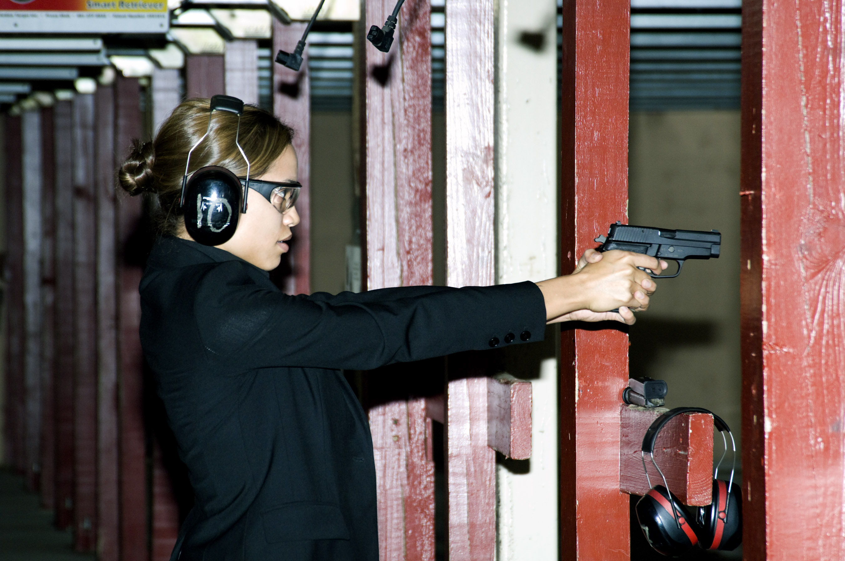 Air Force provides support in new Hollywood movie "Eagle Eye". Rosario Dawson fires a M11 pistol at the firing range at Andrews Air Force Base, Md. Ms. Dawson was at the base researching her role as a special agent with the Air Force Office of Special Investigations in the movie "Eagle Eye" (U.S. Air Force photo/Mike Hastings)